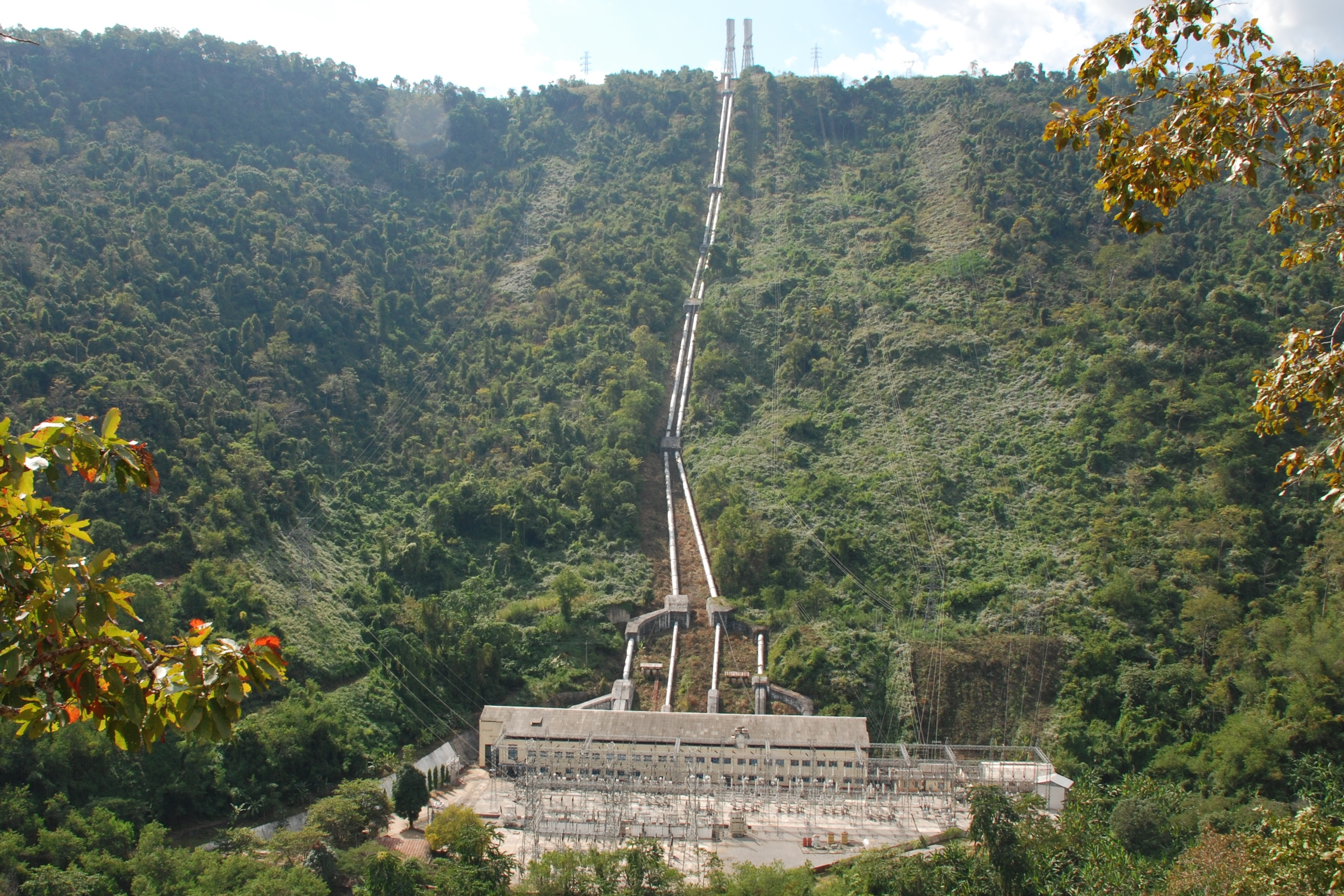 Baluchaung Hydroelectric power station No.2